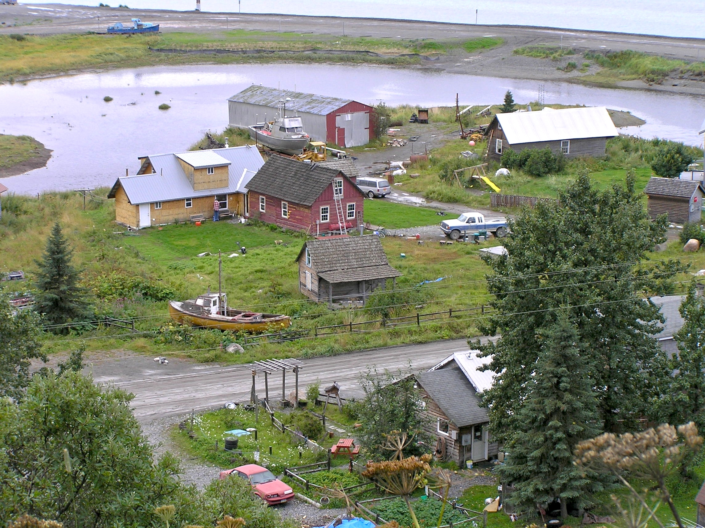 Ninilchik, Alaska. Photo taken from the grounds of the Russian Orthodox Church, by J. Corey Butler, 2006.